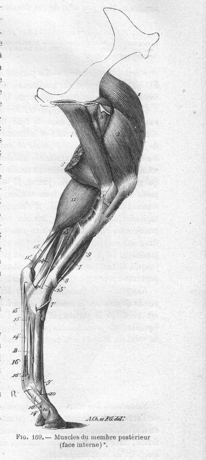 The internal muscles of the hindleg of the horse (Equus caballus).